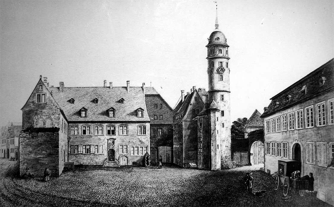 court, white tower and old post office circa 1800 in Darmstadt